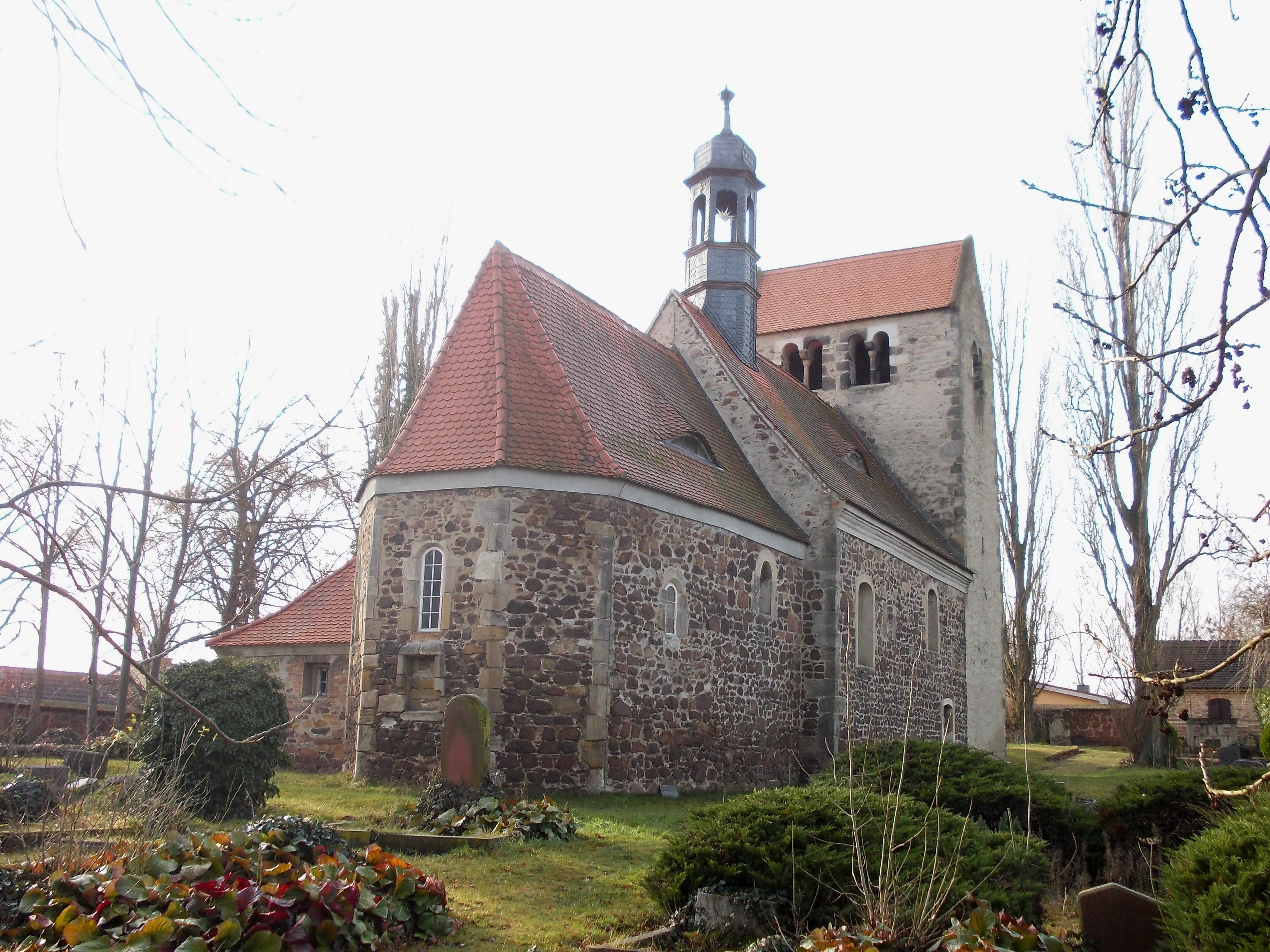 St. Maurice Church in Teicha (Petersberg, district: Saalekreis, Saxony-Anhalt)